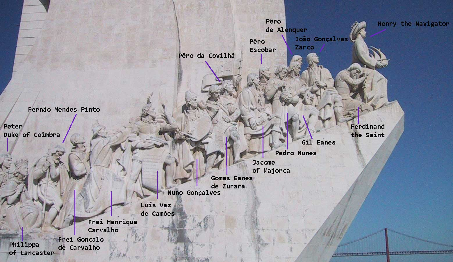 West side of the Monument to the Portuguese Discoveries (Padrão dos Descobrimentos) in Lisbon, with labels of individuals represented.